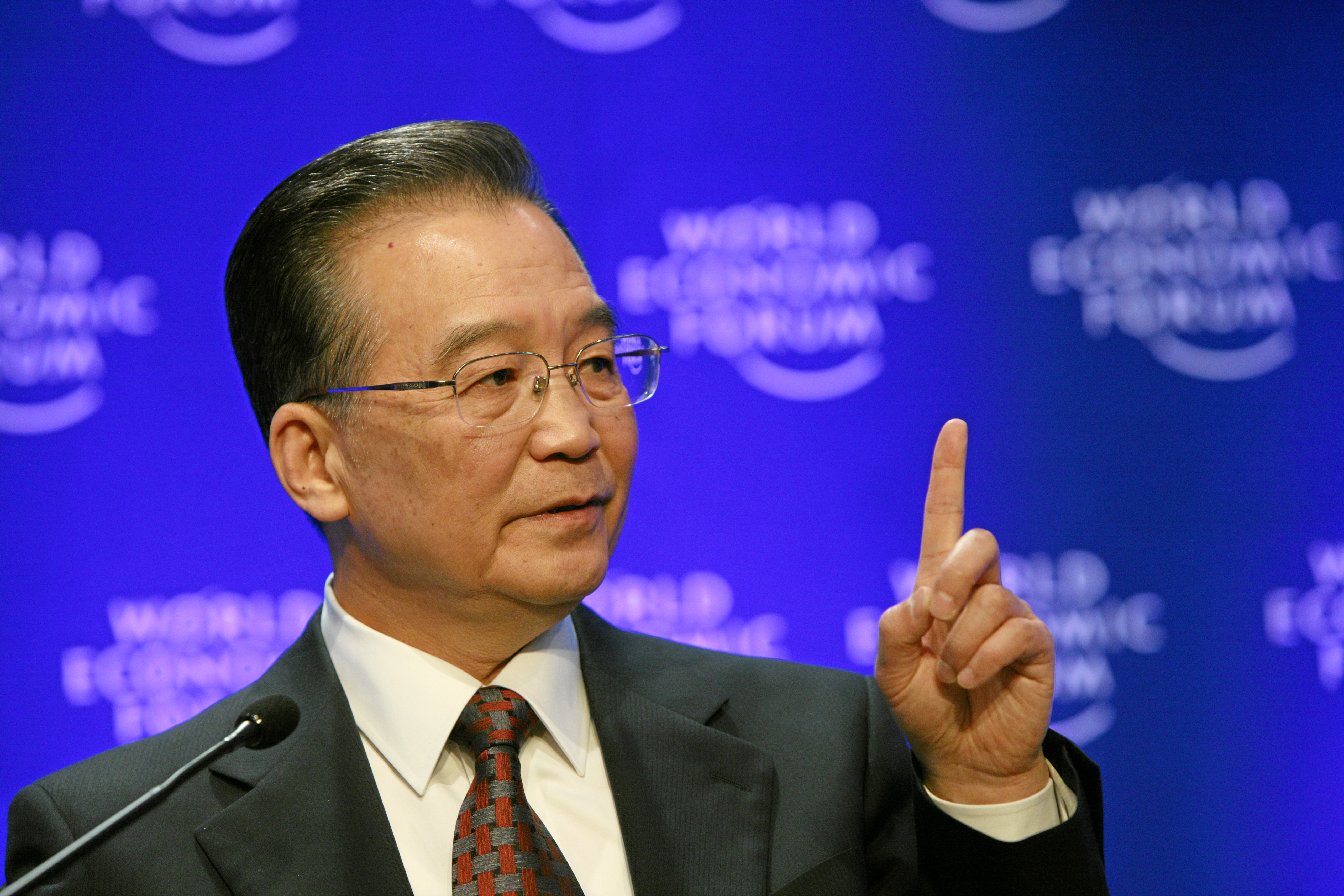 Wen Jiabao at WEF Annual Meeting in Davos 2009